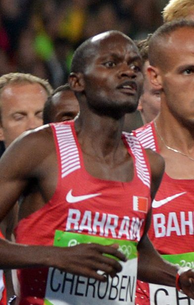 Abraham Cheroben at the 2016 Rio Olympic Games in Rio de Janeiro.